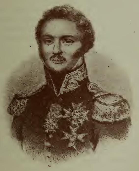 French army colonel Joseph Conrad, officer of French Foreign Legion and commander of the French Auxiliary Division from 1836 to his dead in 1837; assigned a brigadier rank within the Spanish Army.